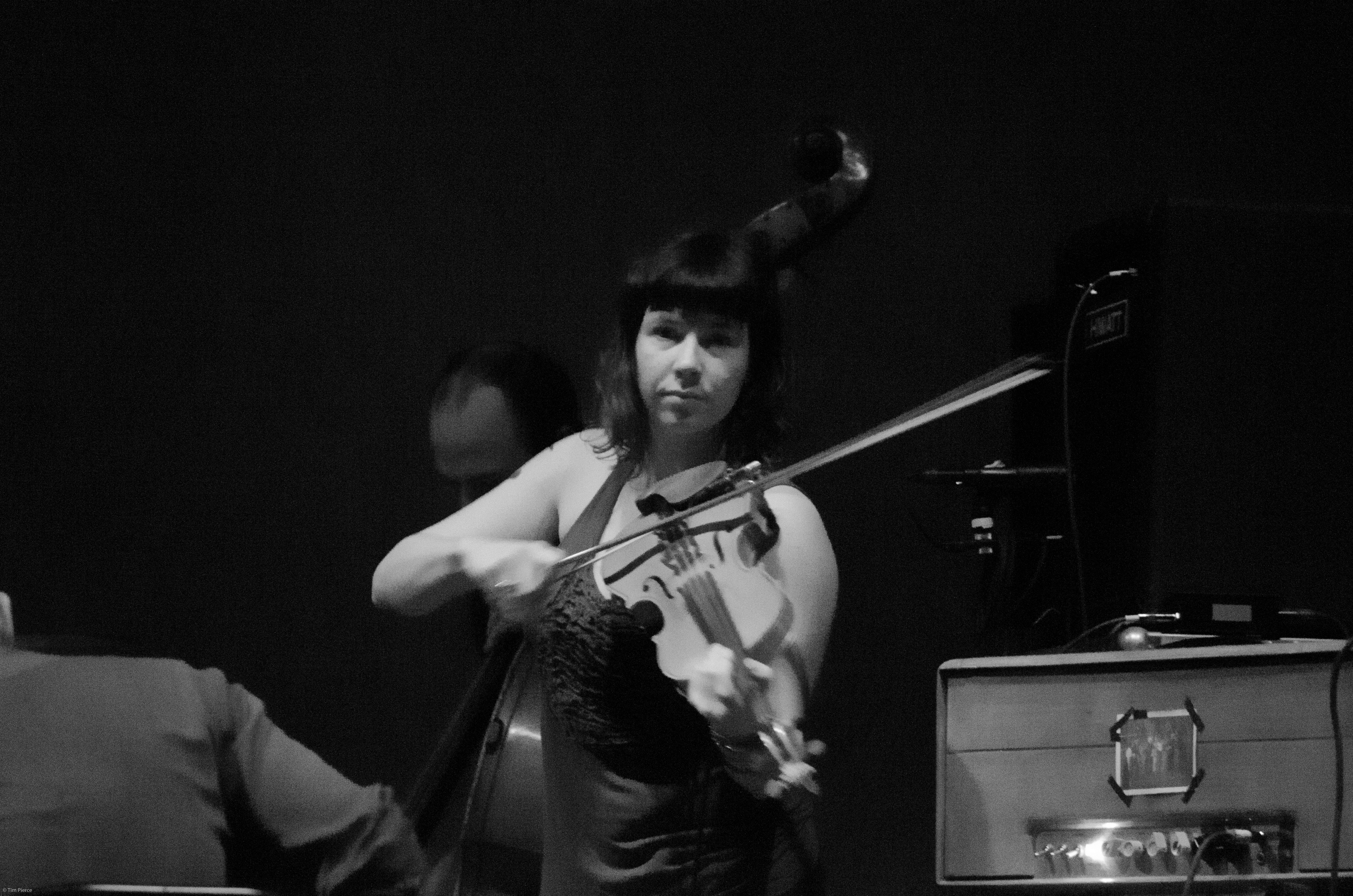 Sophie Trudeau playing the violin with Godspeed You! Black Emperor, at the Orpheum Theatre in Boston, Massachusetts, October 1, 2012.